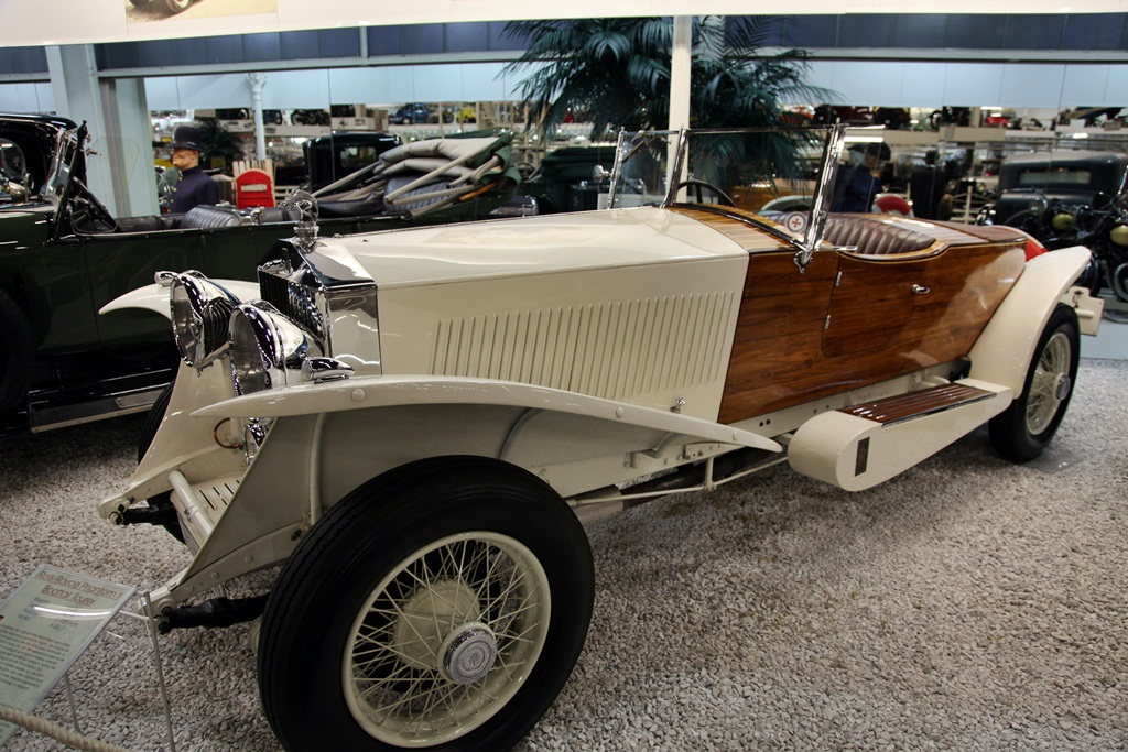 1933 Rolls Royce Phantom II Boat tail, refitted in the 1950ies by Hooper of London with the yacht styled tail section. On display at Technikmuseum Sinsheim, Germany